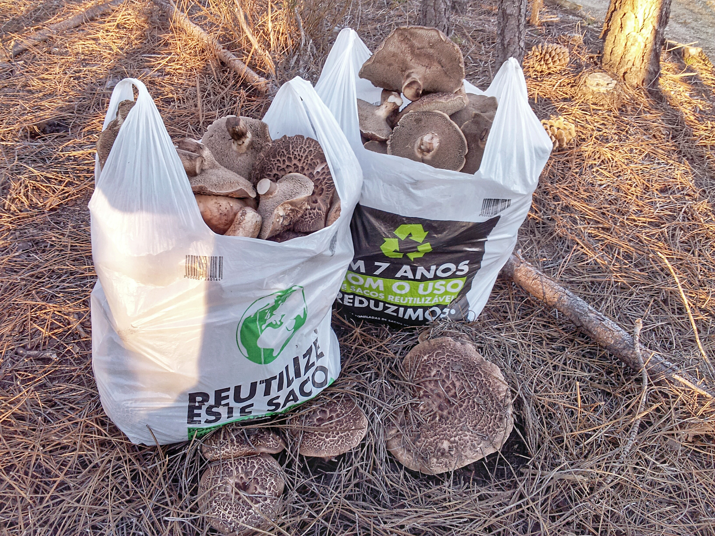 Sarcodon Imbricatus. Own work. Released in public domain